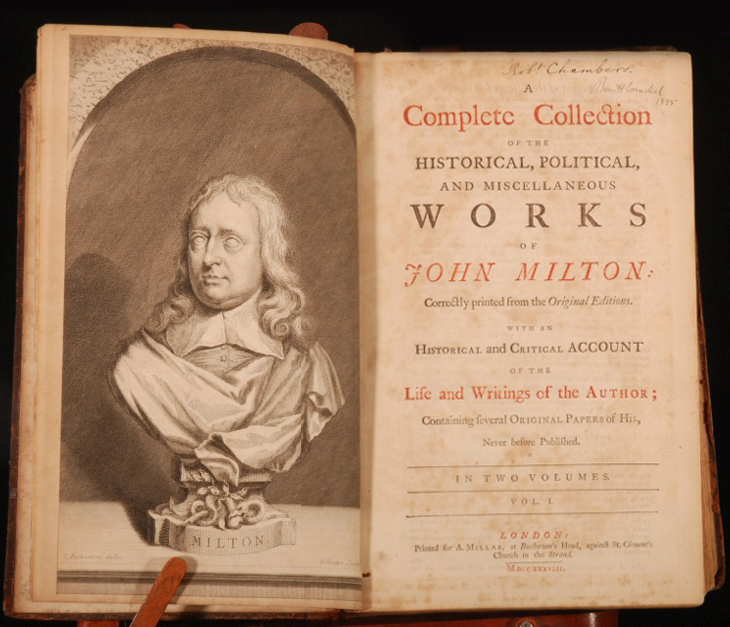 Front. & title from A complete collection of the historical, political and miscellaneous works of Milton, ed. Thomas Birch. 2 vols, 1738.